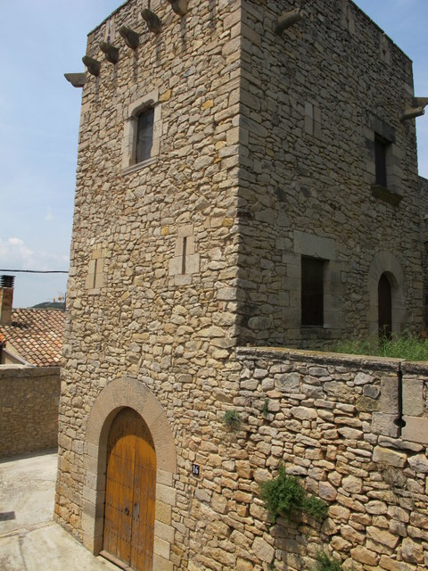 Castell Rocafort de Queralt a la Conca de Barberà - Catalunya